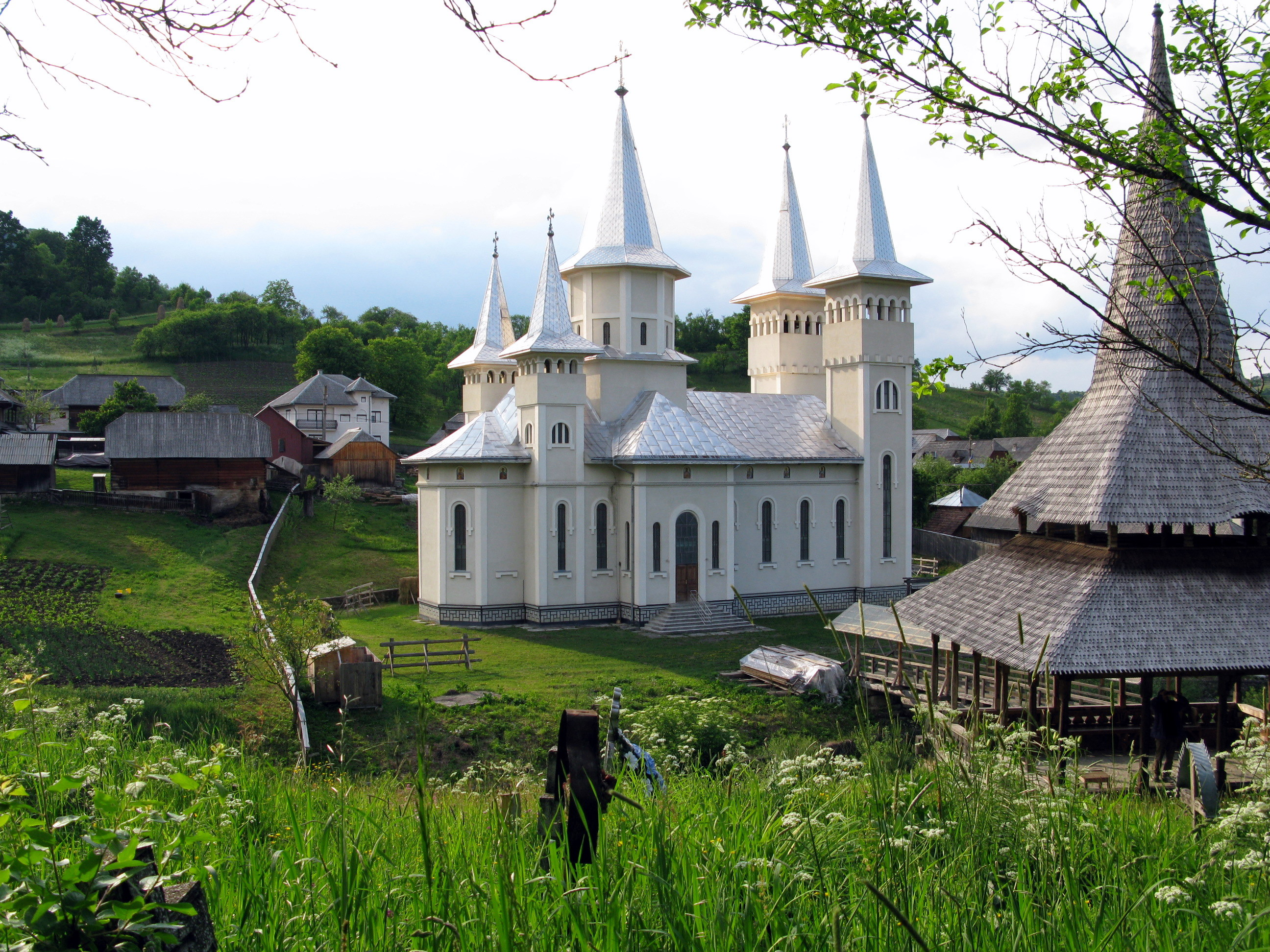 New church in / Maramureş in north of Rumania / EU.